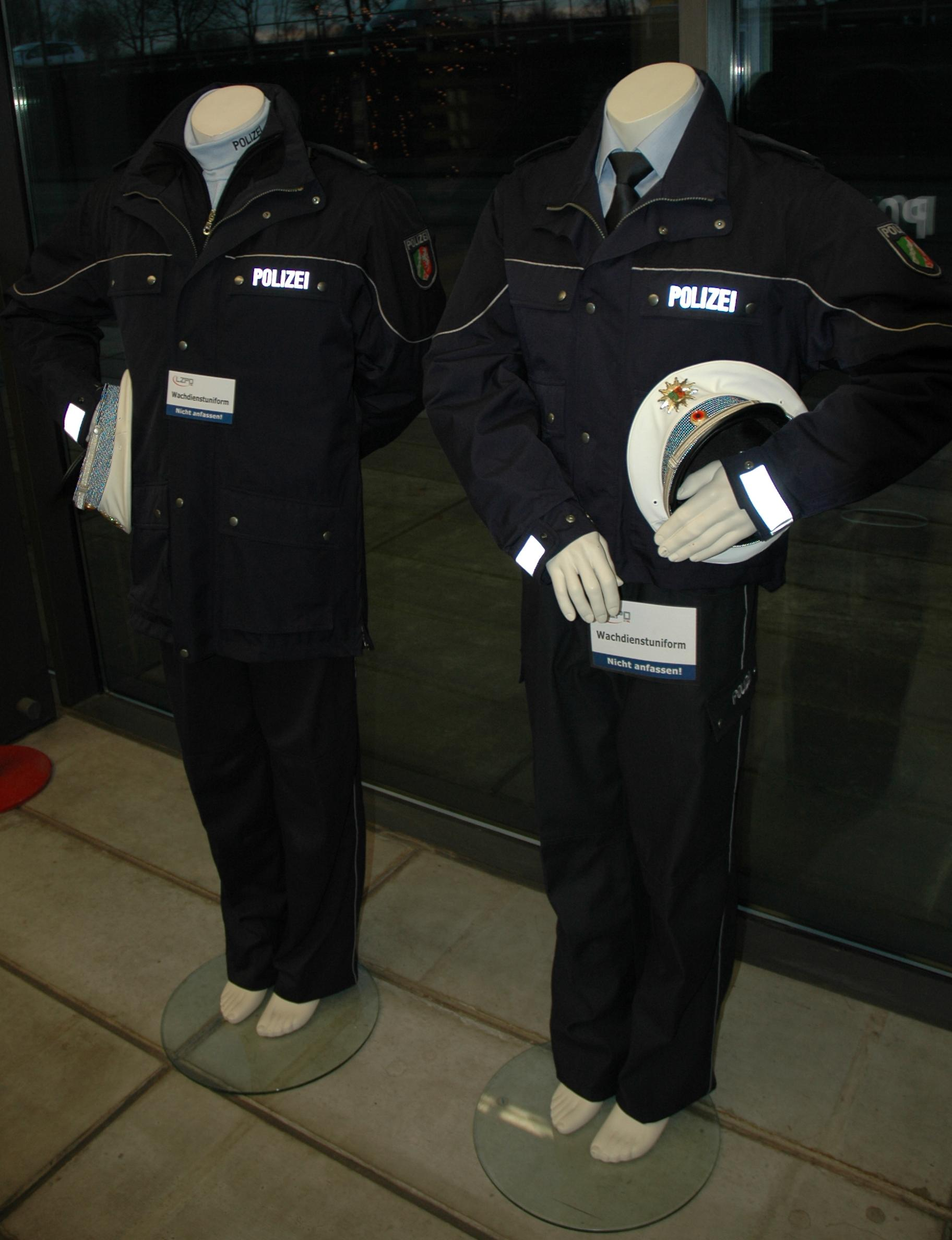 Wachdienstuniform in NRW / Police uniform for normal purposes used in North Rhine-Westphalia